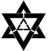 Fukuchiyama Kyoto chapter